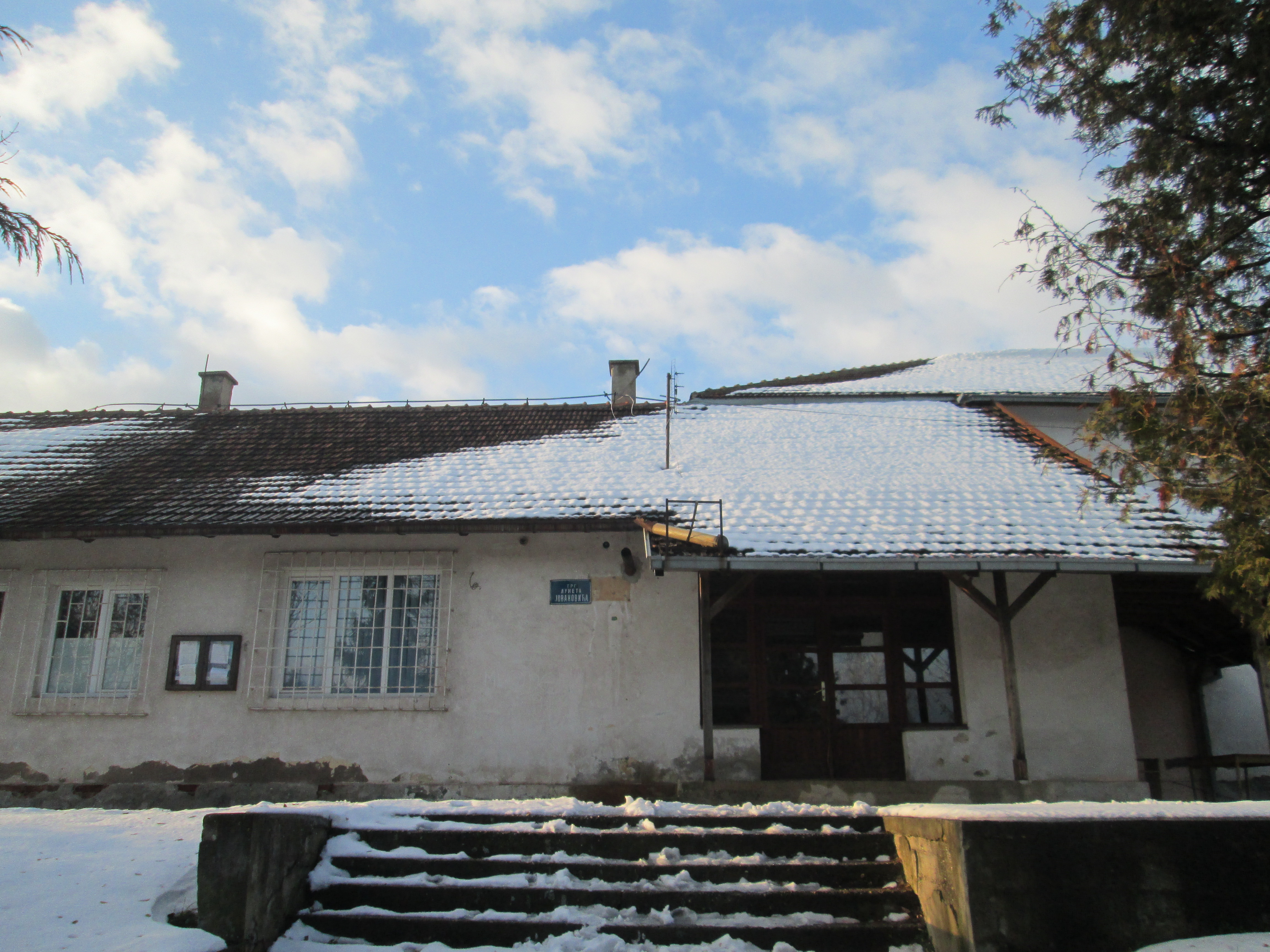 Vučak, Primary school "Sveti Sava" Српски (ћирилица): Вучак, Основна школа „Свети Сава“